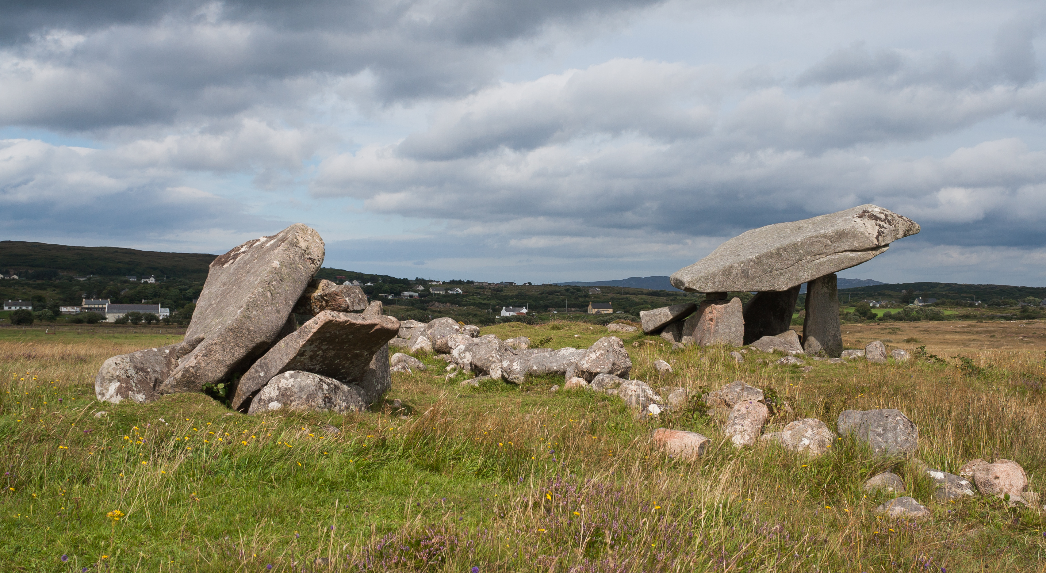 Both chambers of the portal tomb Dg. 70 as seen from south-east.